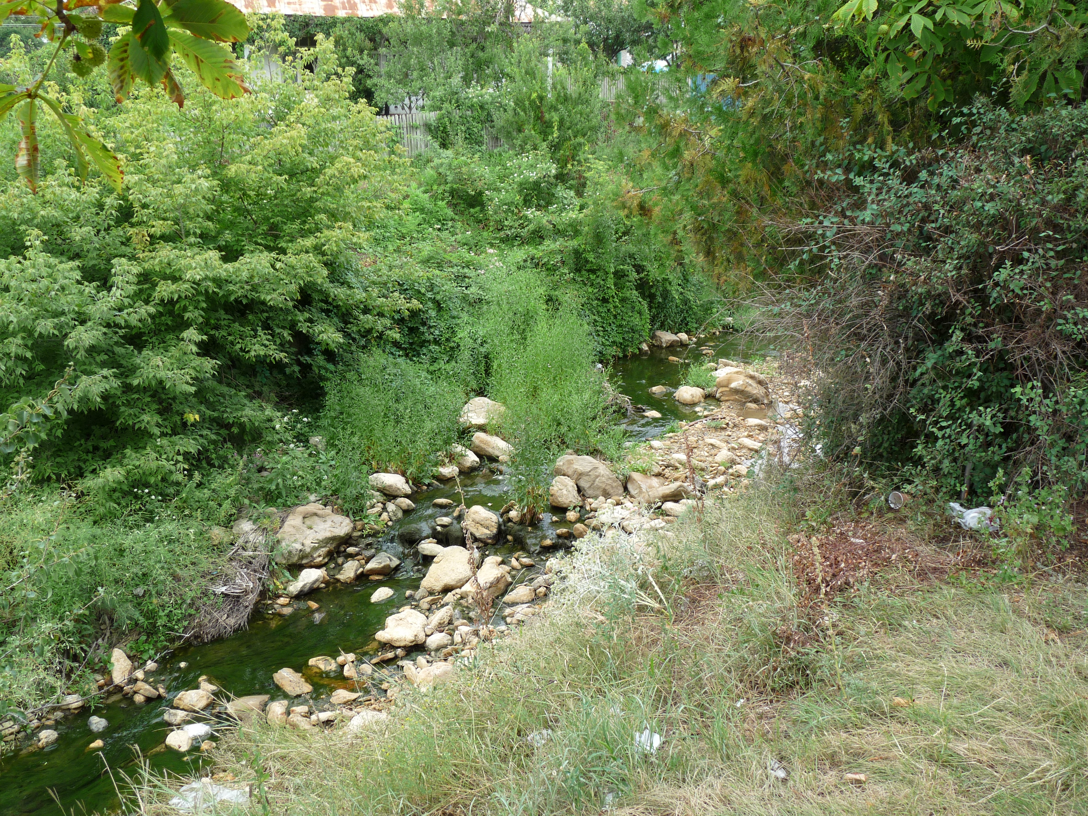 Sărata River in Sărata Monteoru, Buzău County, Romania